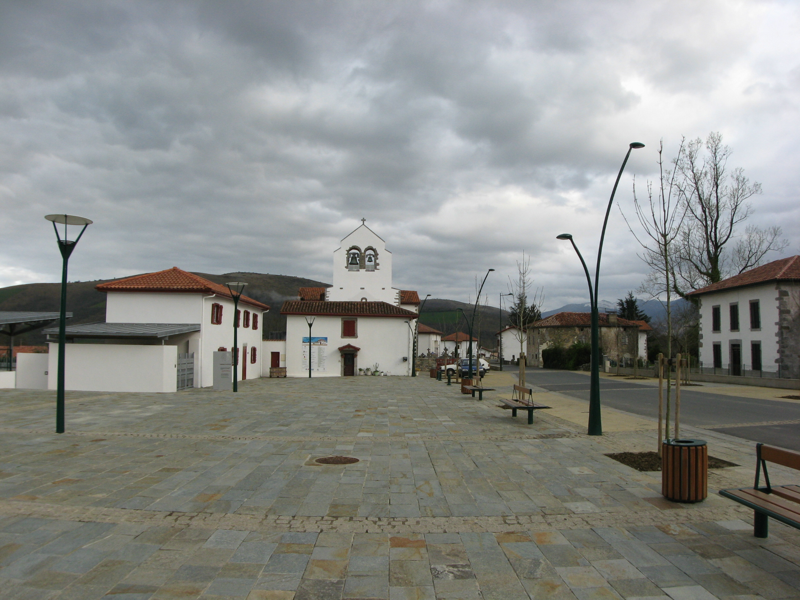 Church of Larzabale (eu)-Larceveau (fr), Lower Navarre, Basque Country; Pyrénées-Atlantiques.